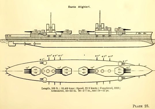 Line drawing of the Italian battleship Dante Alighieri from Brassey's Naval Annual 1923